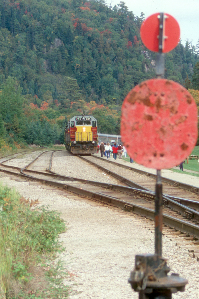 Algoma Central 205 at Agawa Canyon, Ontario, September 1988